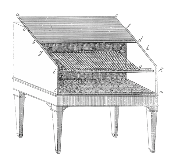 Technical drawing of Chladni's first Euphon